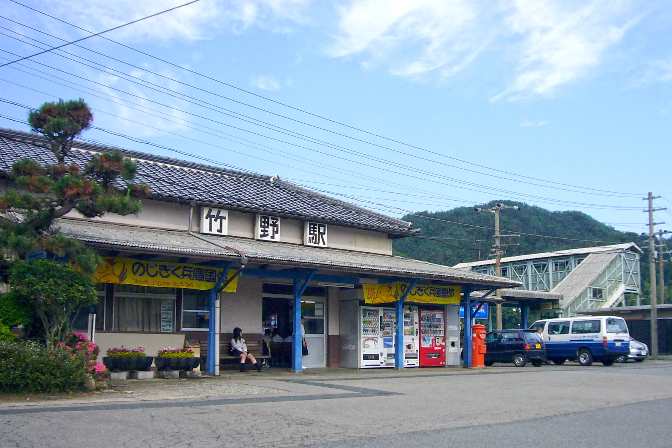 Takeno Station in Toyooka, Hyogo prefecture, Japan